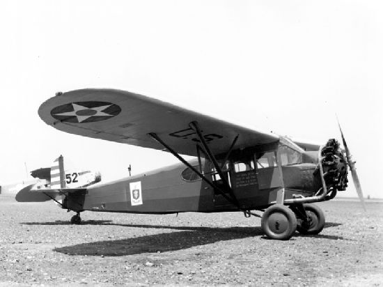 Fairchild YF-1 aerial photography aircraft of the United States Army Air Corps.